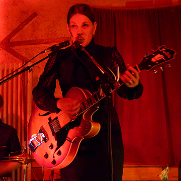 Nadja Zela, Singer, Guitarist and Songwriter from Switzerland @ Helsinki Klub, Zürich, 2012